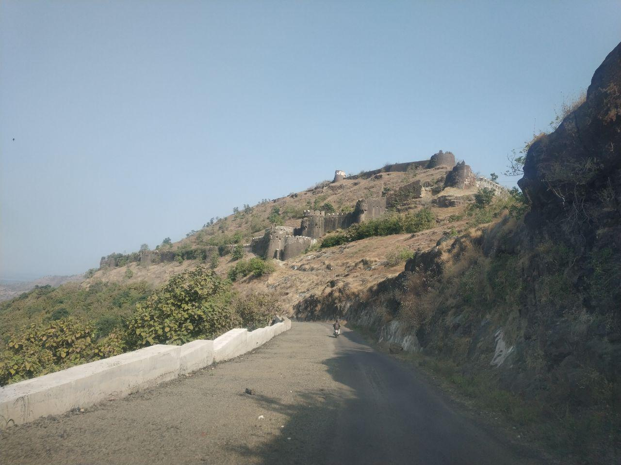 Vetal fort